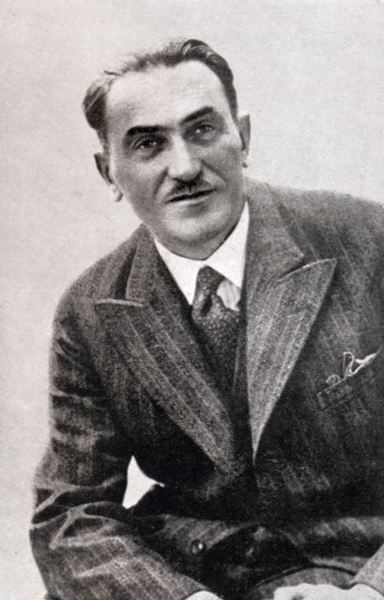 Tadeusz Boy-Żeleński, Polish writer